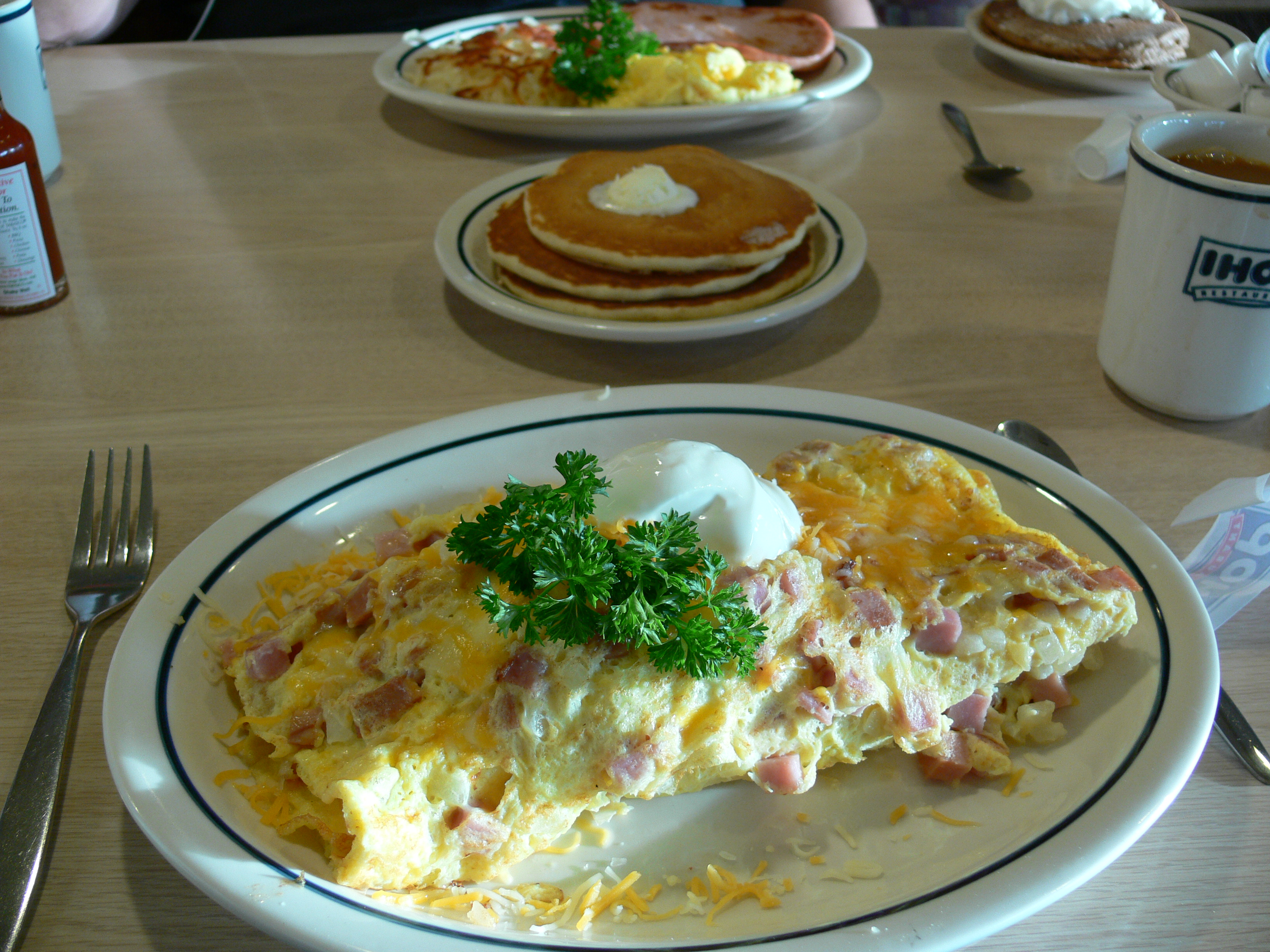 Breakfast featuring an omelette at an IHOP restaurant in Union City, California